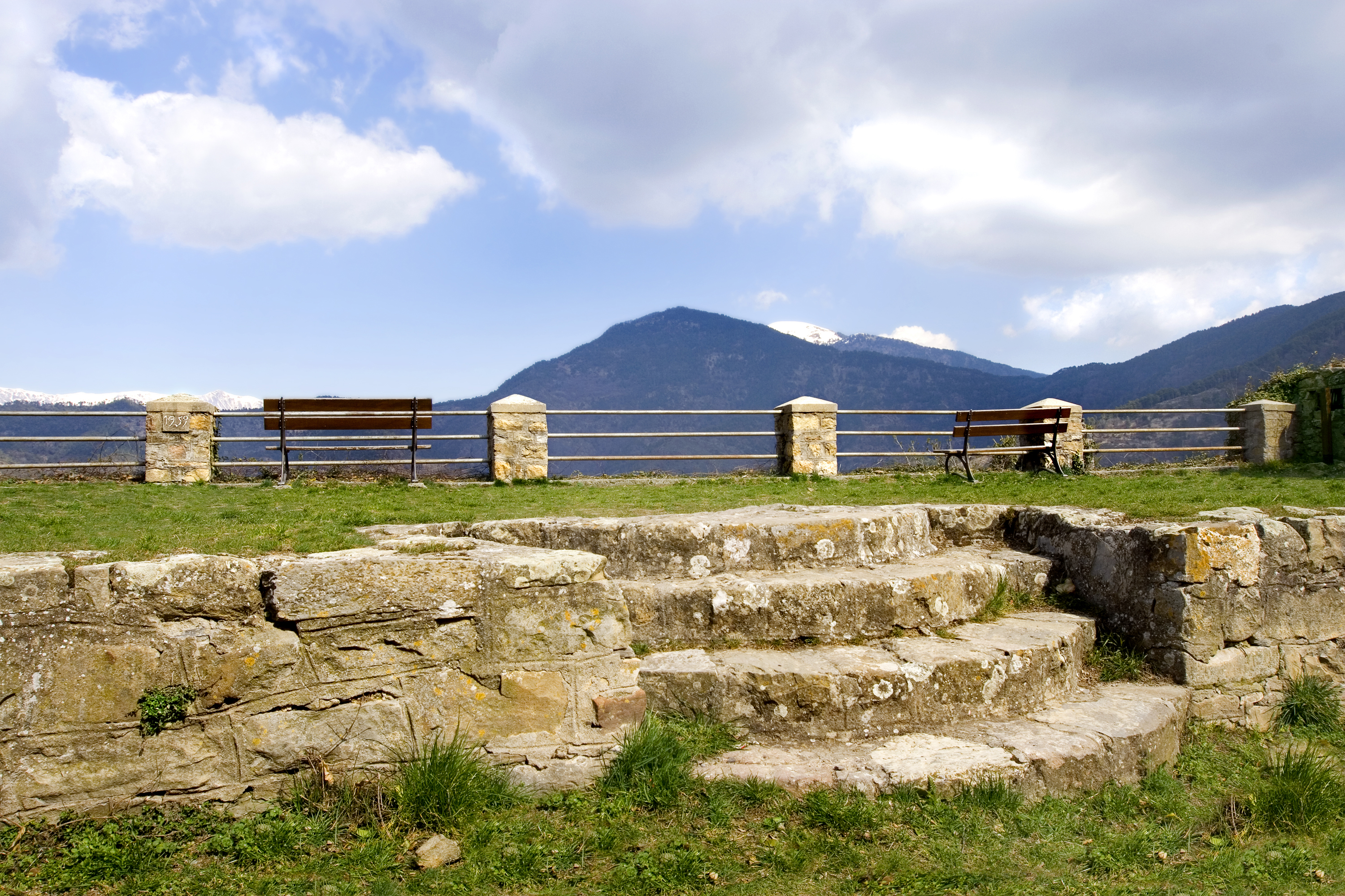 The mountain Village Bajardo, Italy, plateau of the old celtic temple